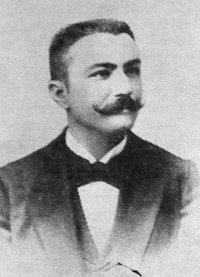 Emil Racoviţă, at the "Romanian Academy". Emil Racoviţă.